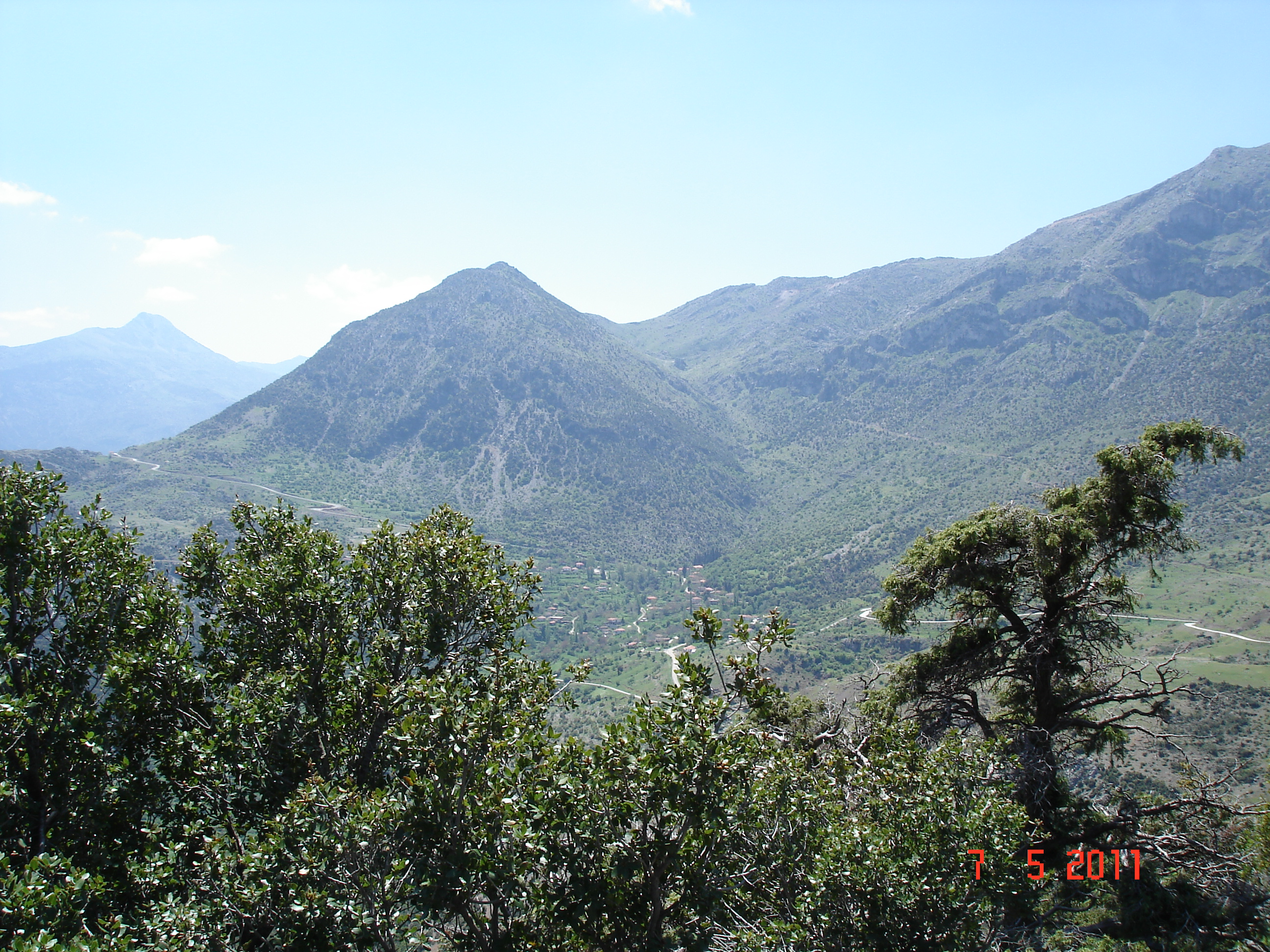 Kefalovryso seen from Mt Mavrovouni